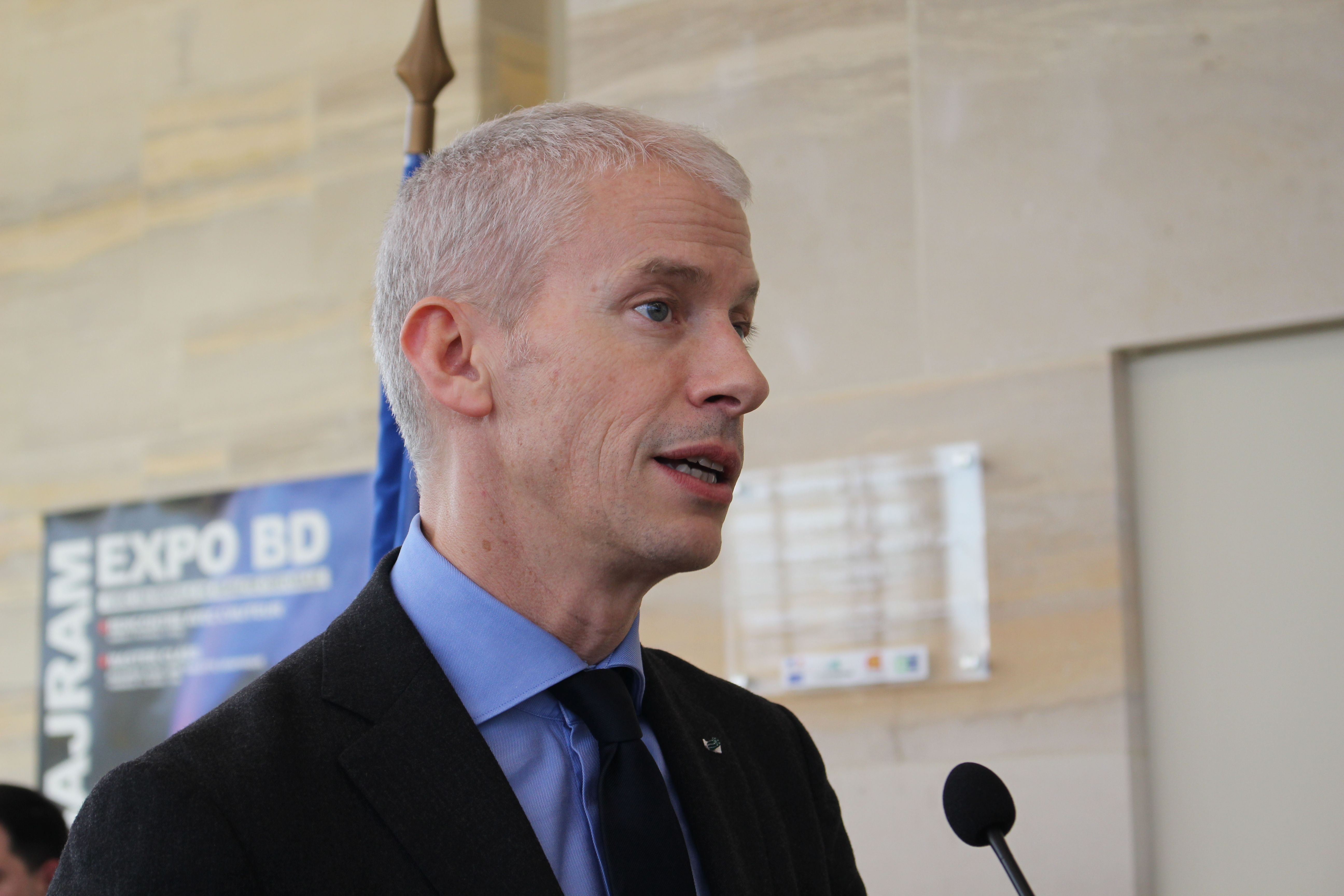 Franck Riester, French Minister of Culture, during the opening ceremony of the Bayeux library "Les 7 Lieux"